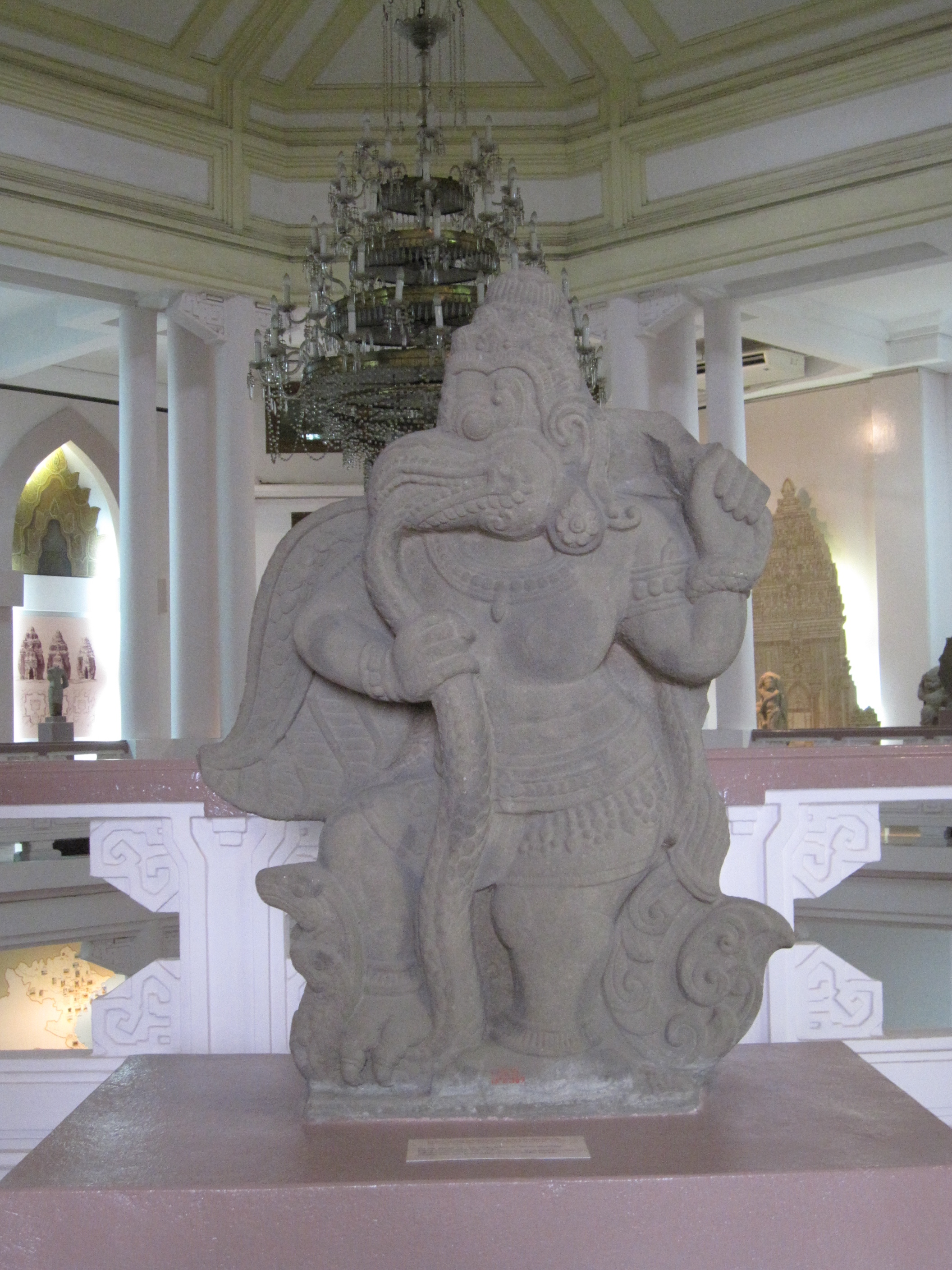 Garuda and Naga, carved sandstone, 12th-13th century. Binh Dinh province, central Vietnam. Decoration exterior of Cham temple.